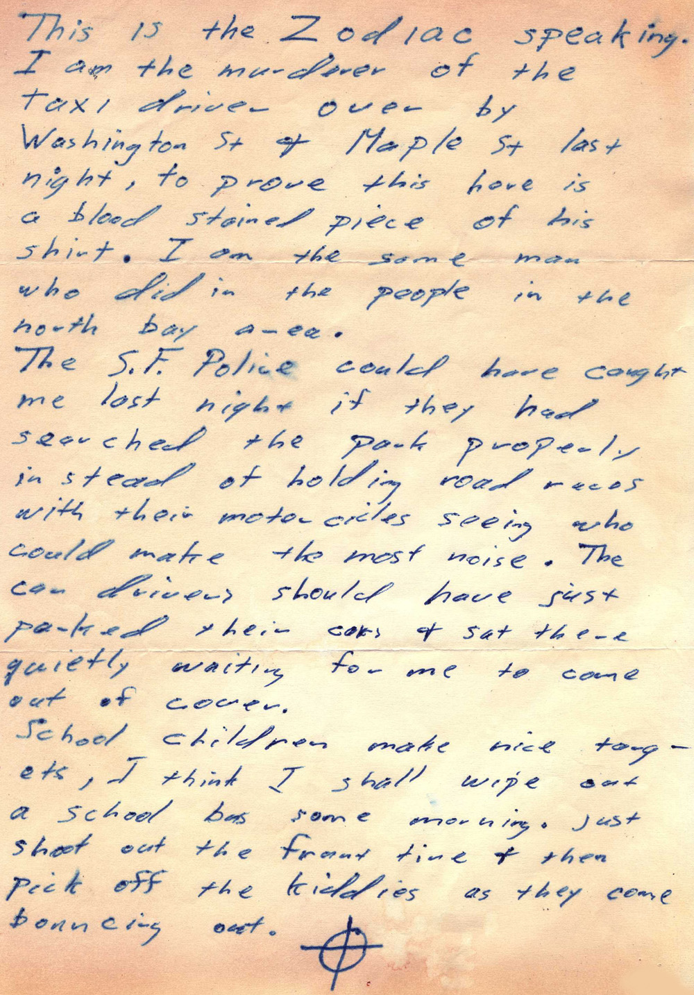 The Zodiac Killer's October 13th 1969 letter to the San Francisco Chronicle